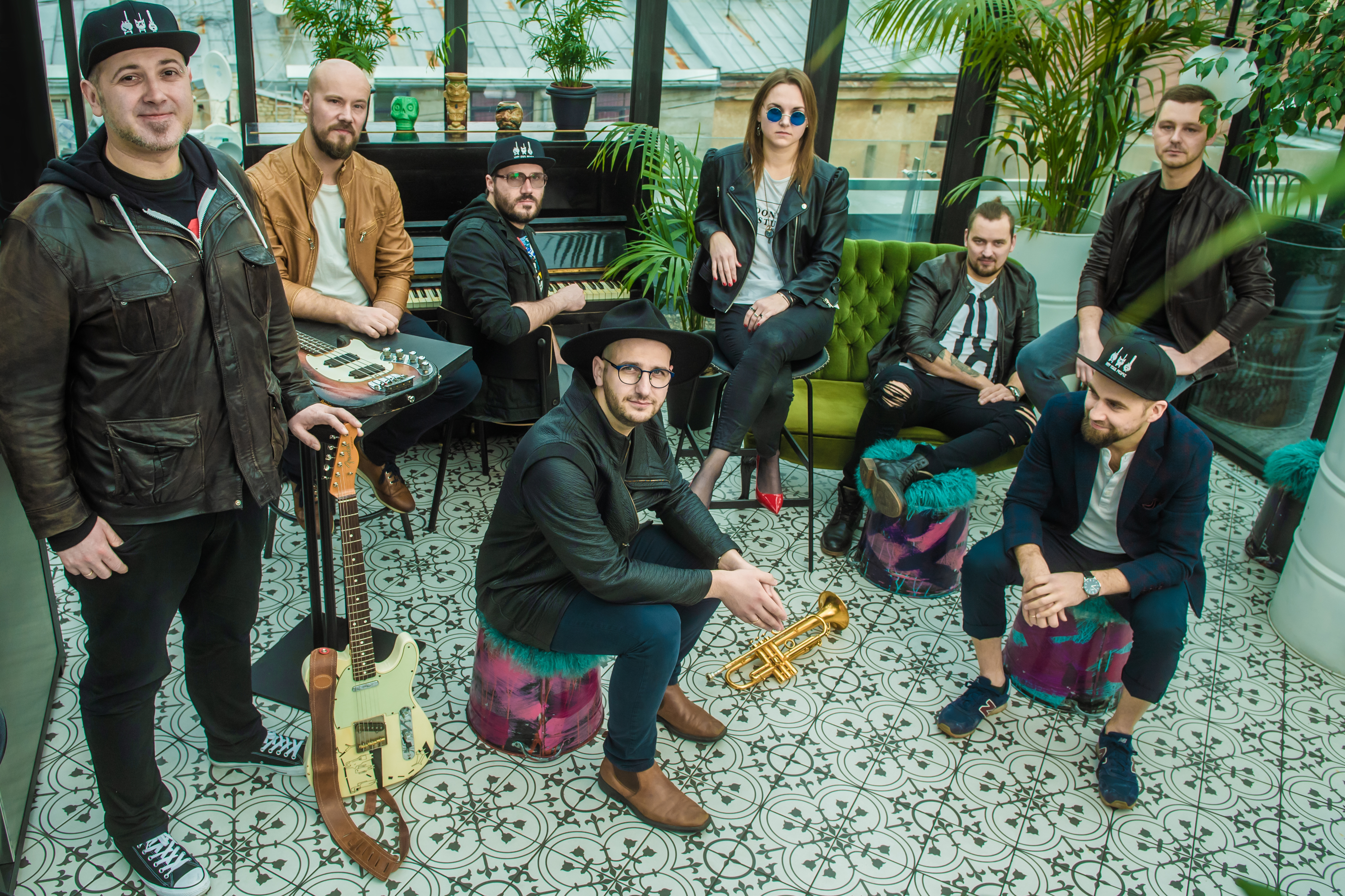 Band "Very cool people"